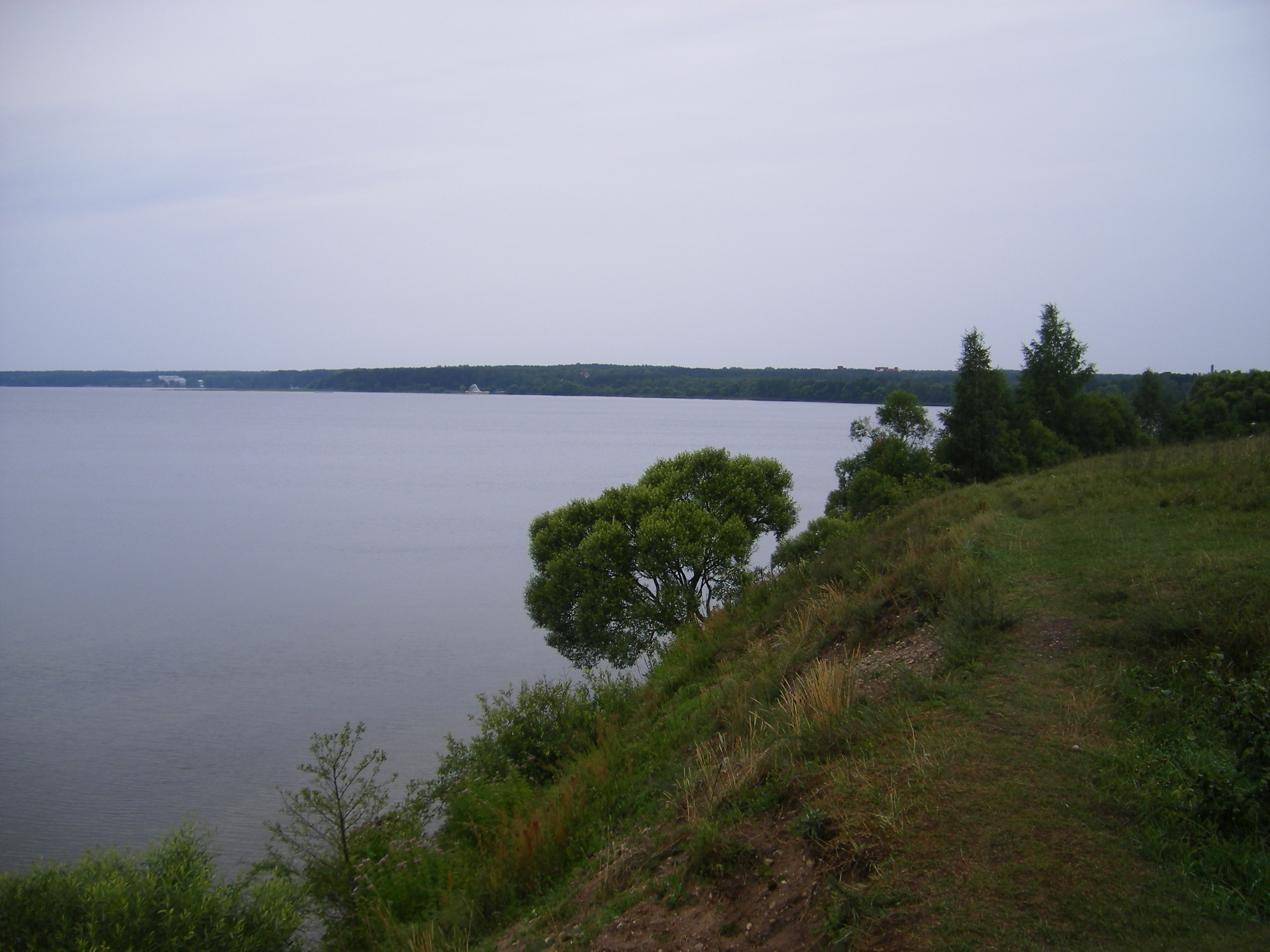 Lake Naroch, from Simony